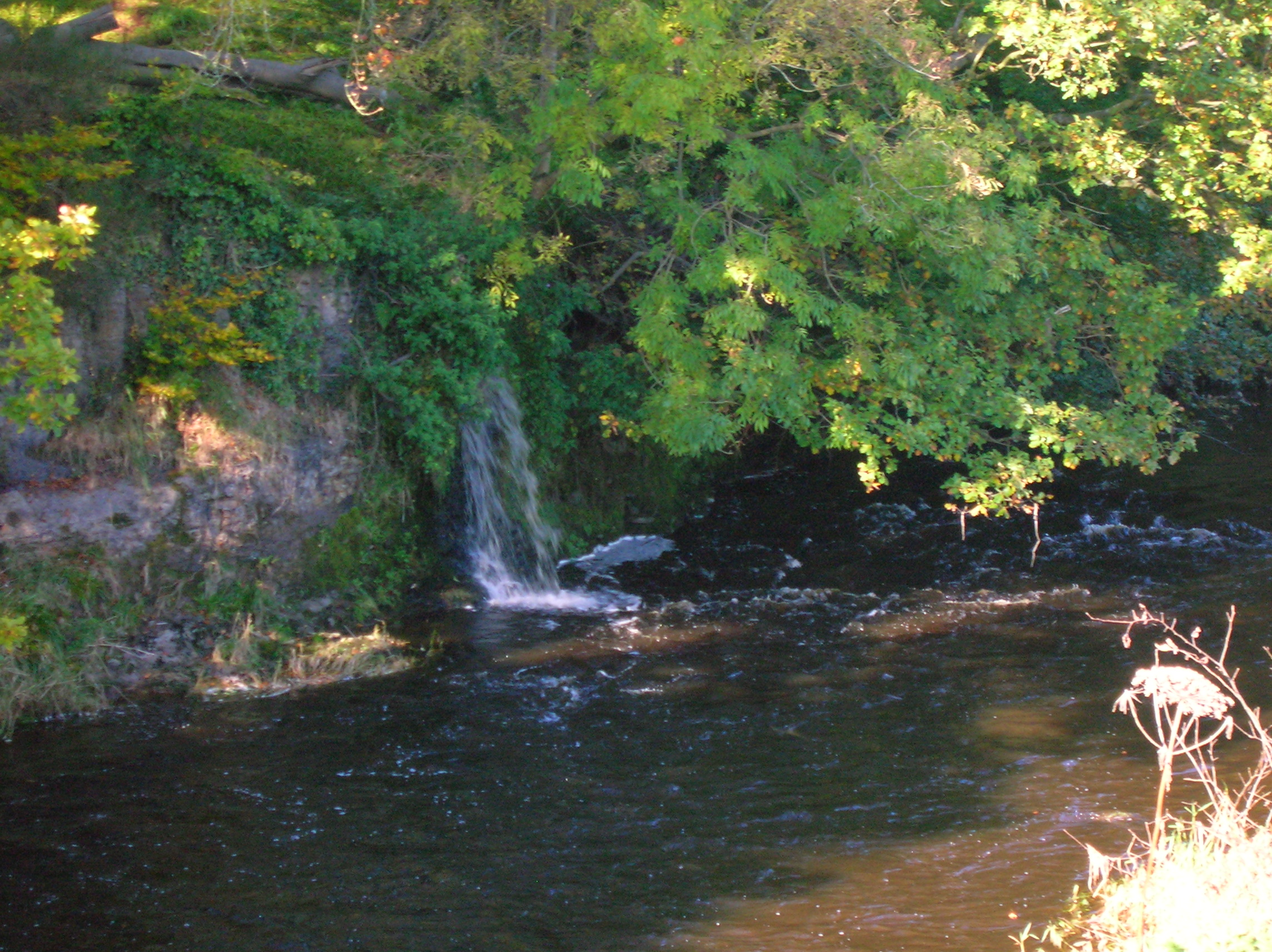 A waterfall at Cunninghamhead, Annick Water, North Ayrshire, Scotland. October 2007. Roger Griffith.